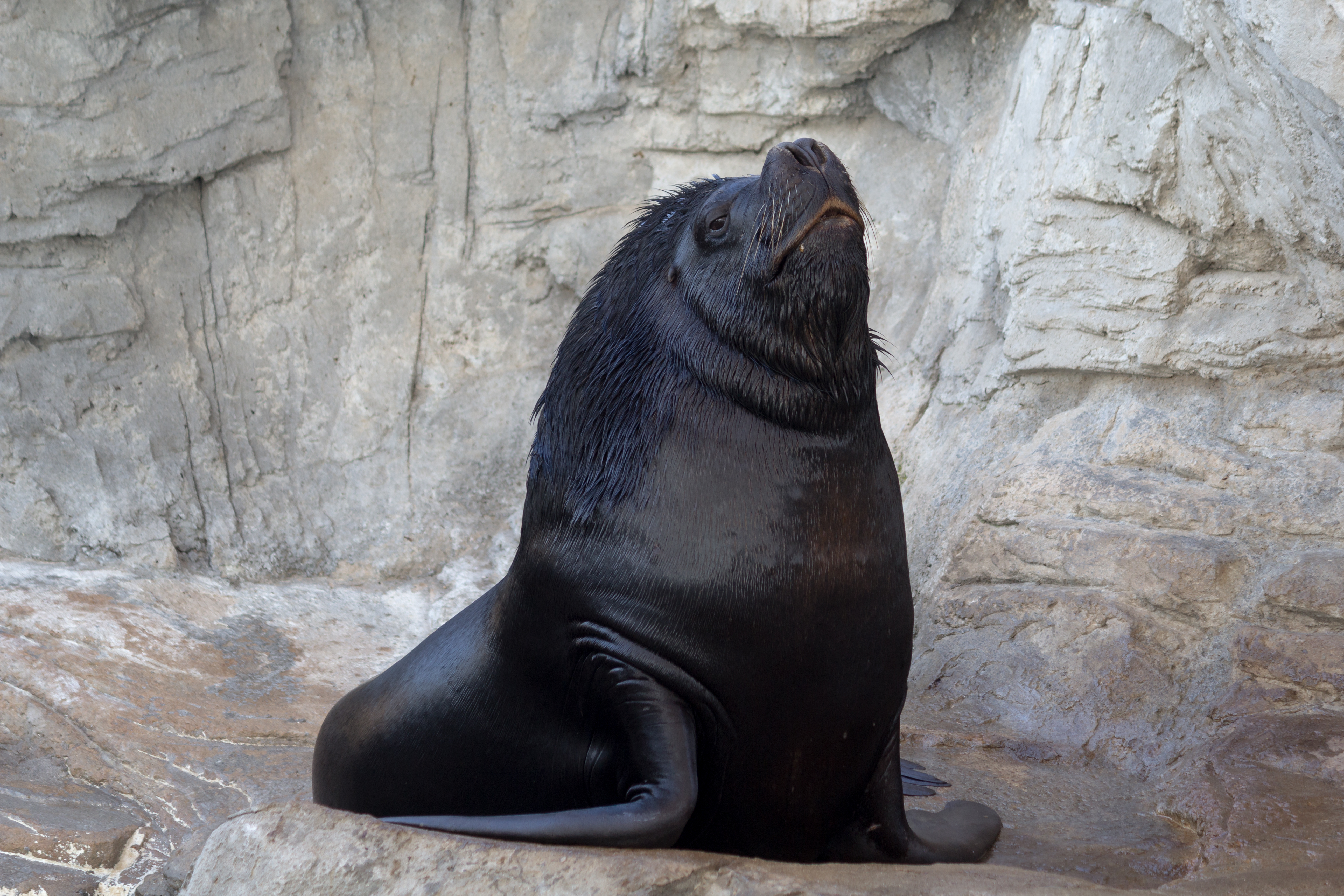 Southern sea lion (Otaria flavescens) at L'Oceanogràfic.